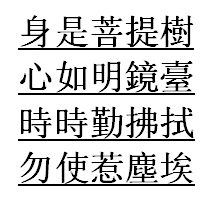 own scan